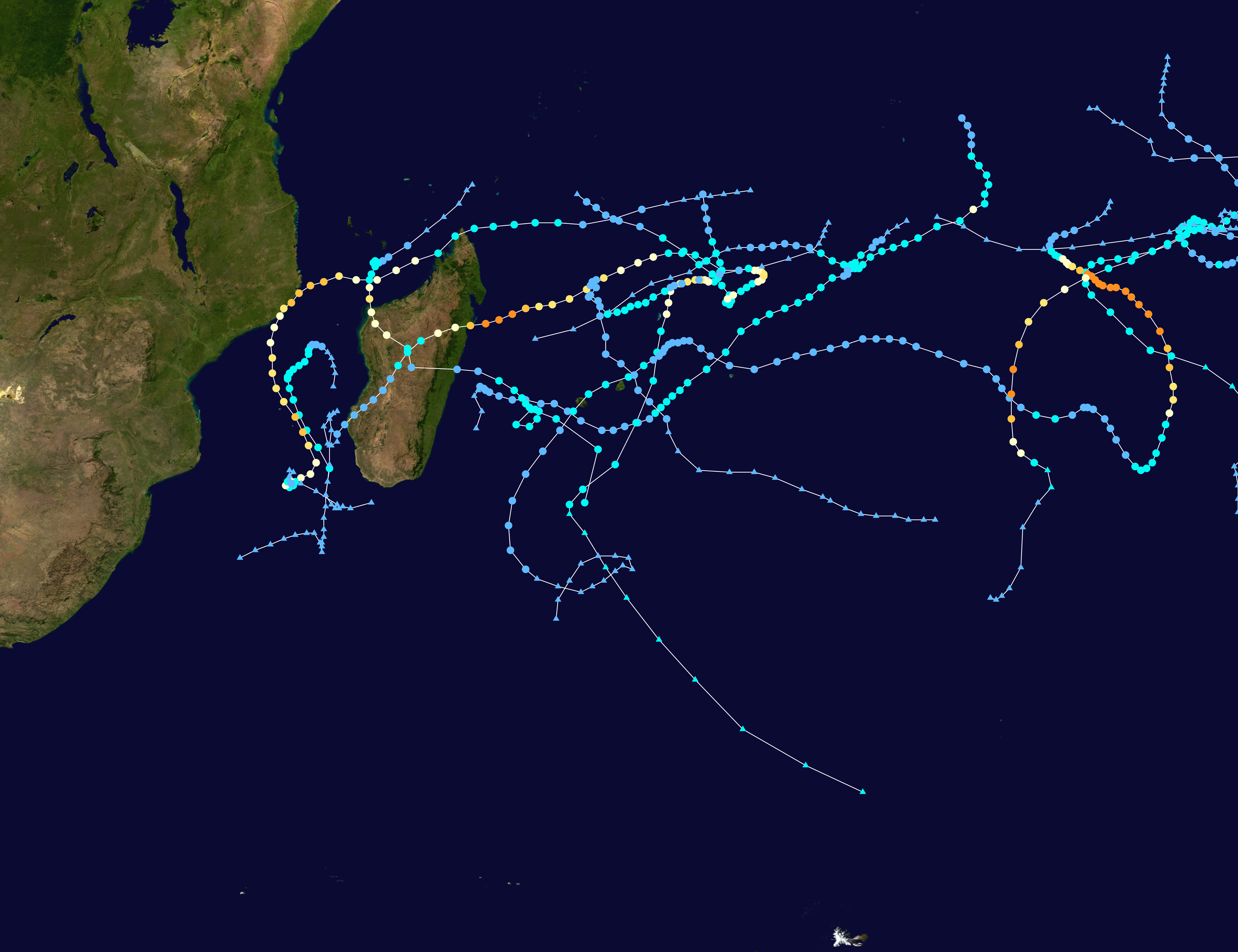 This map shows the tracks of all tropical cyclones in the 2007-08 South-West Indian Ocean cyclone season. The points show the location of each storm at 6-hour intervals. The colour represents the storm's maximum sustained wind speeds as classified in the Saffir-Simpson Hurricane Scale (see below), and the shape of the data points represent the type of the storm. Saffir–Simpson scale Tropical depression≤38 mph≤62 km/h Category 3111–129 mph178–208 km/h Tropical storm39–73 mph63–118 km/h Category 4130–156 mph209–251 km/h Category 174–95 mph119–153 km/h Category 5≥157 mph≥252 km/h Category 296–110 mph154–177 km/h Unknown Storm type Tropical cyclone Subtropical cyclone Extratropical cyclone / Remnant low / Tropical disturbance / Monsoon depression